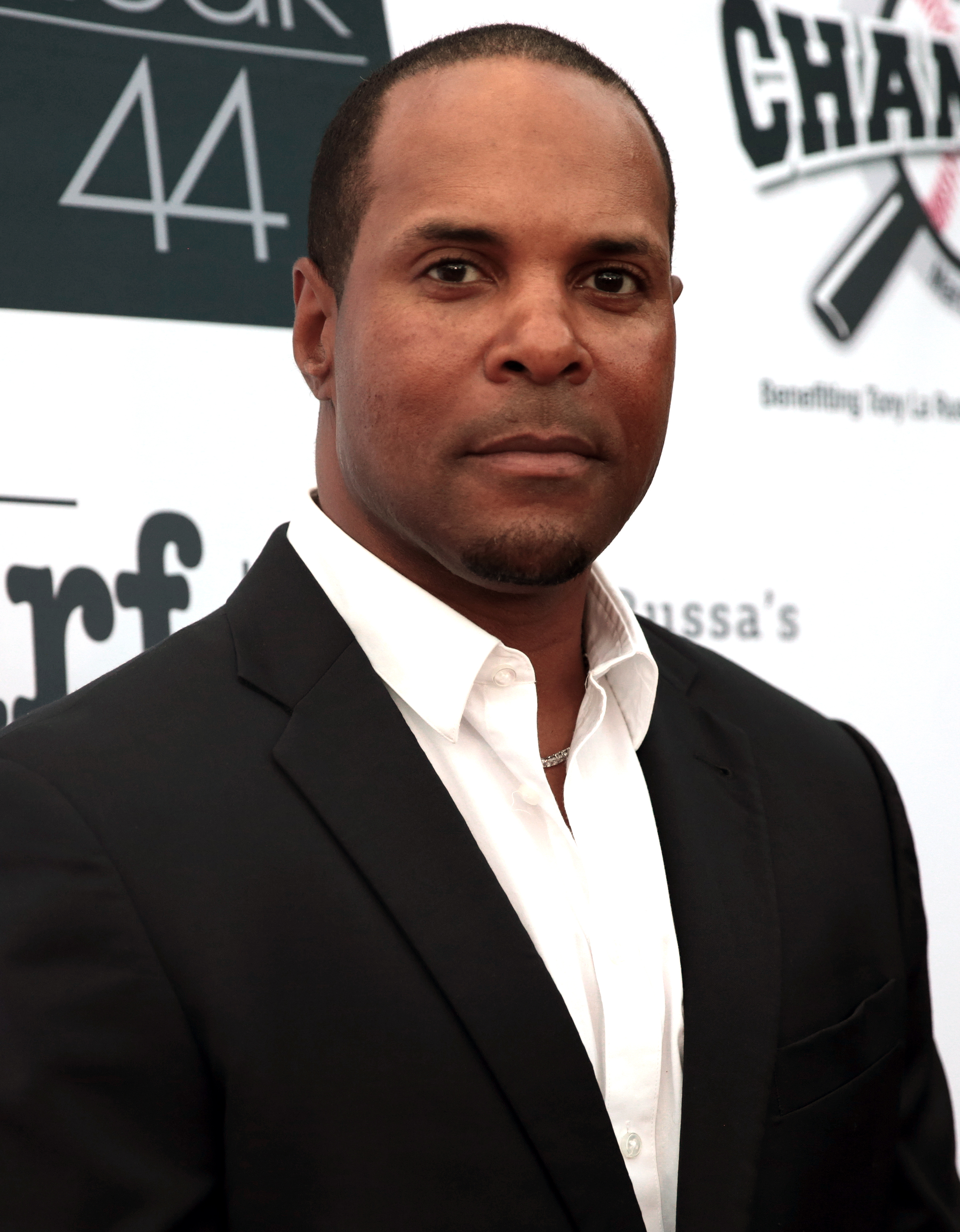 Barry Larkin on the red carpet at the Dinner of Champions hosted by Tony La Russa in Phoenix, Arizona.